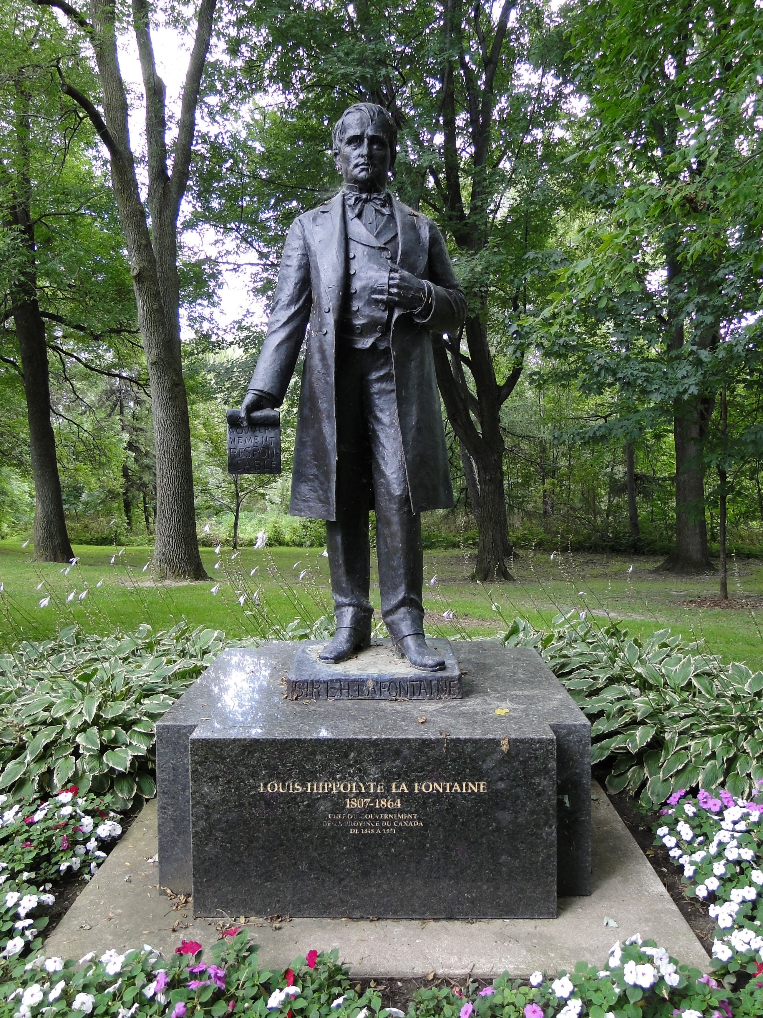 Statue of Louis-Hippolyte Lafontaine in De La Broquerie park, Boucherville, province of Quebec, Canada